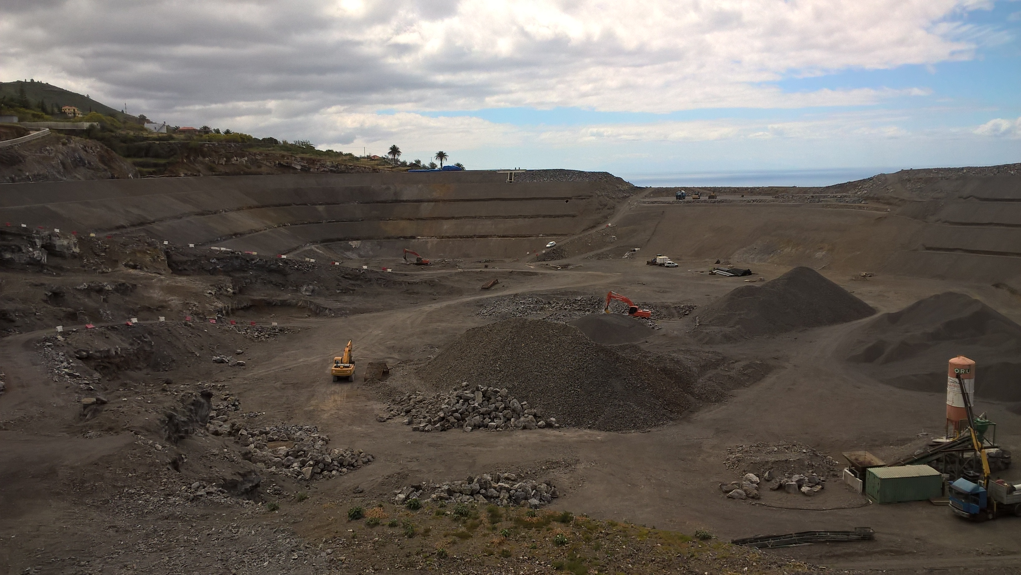 Tijarafe, Balsa de Vicario, state of erection 2017-03